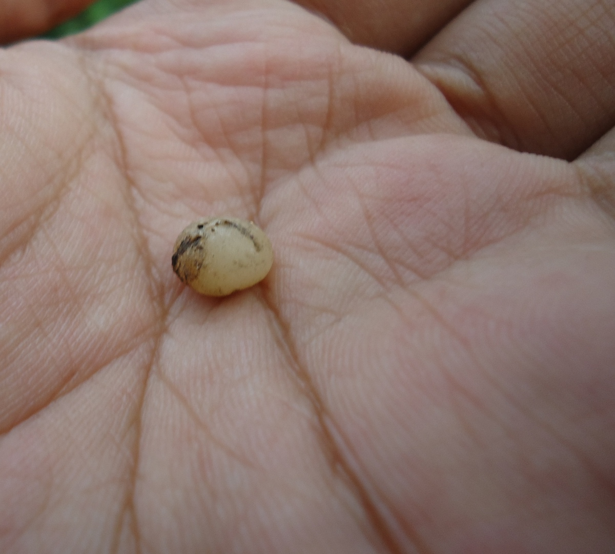 Earthworm egg from Lumbricus rubellus. Philippines.